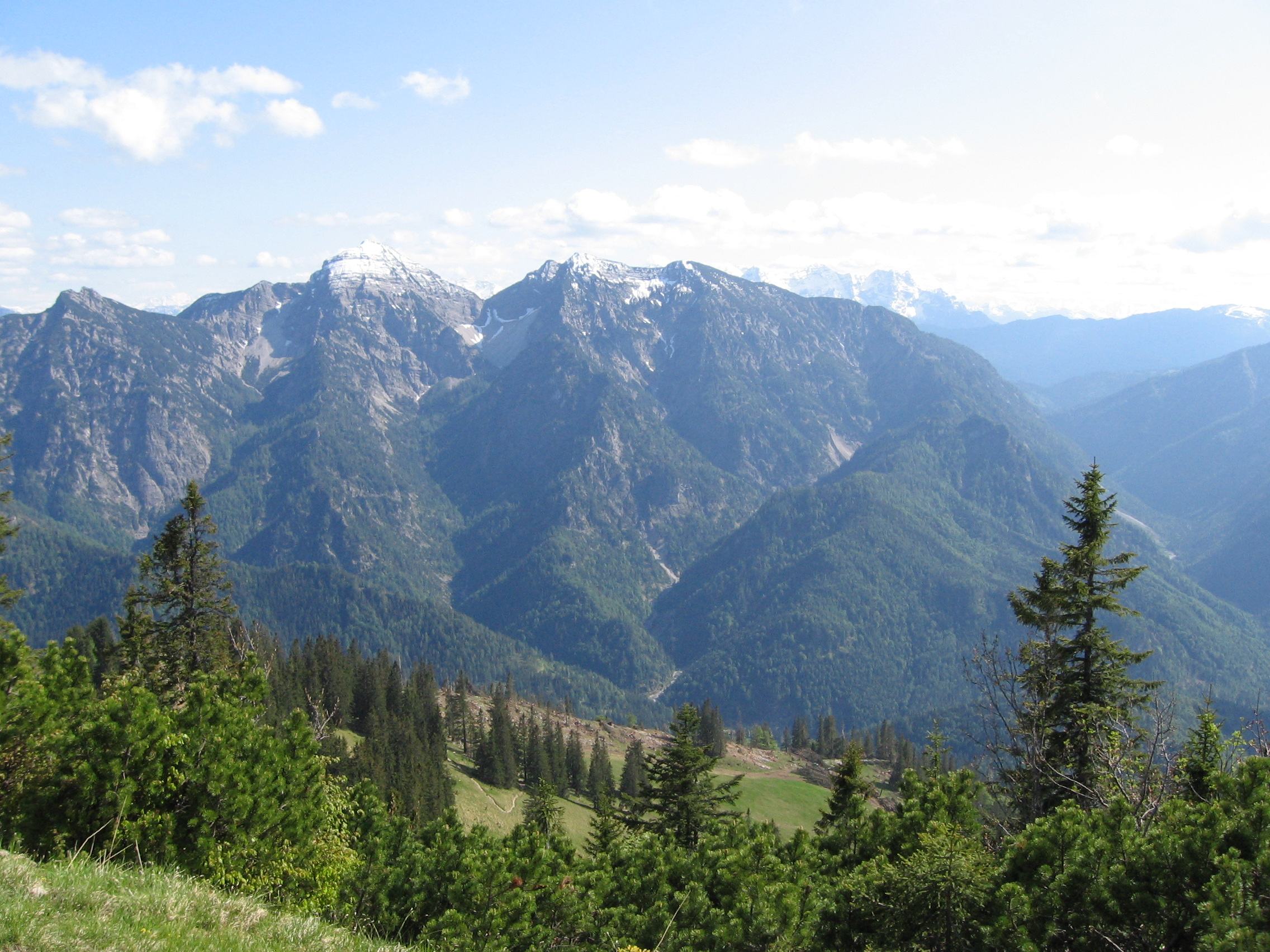 View from Rauschberg towards the Sonntagshorn